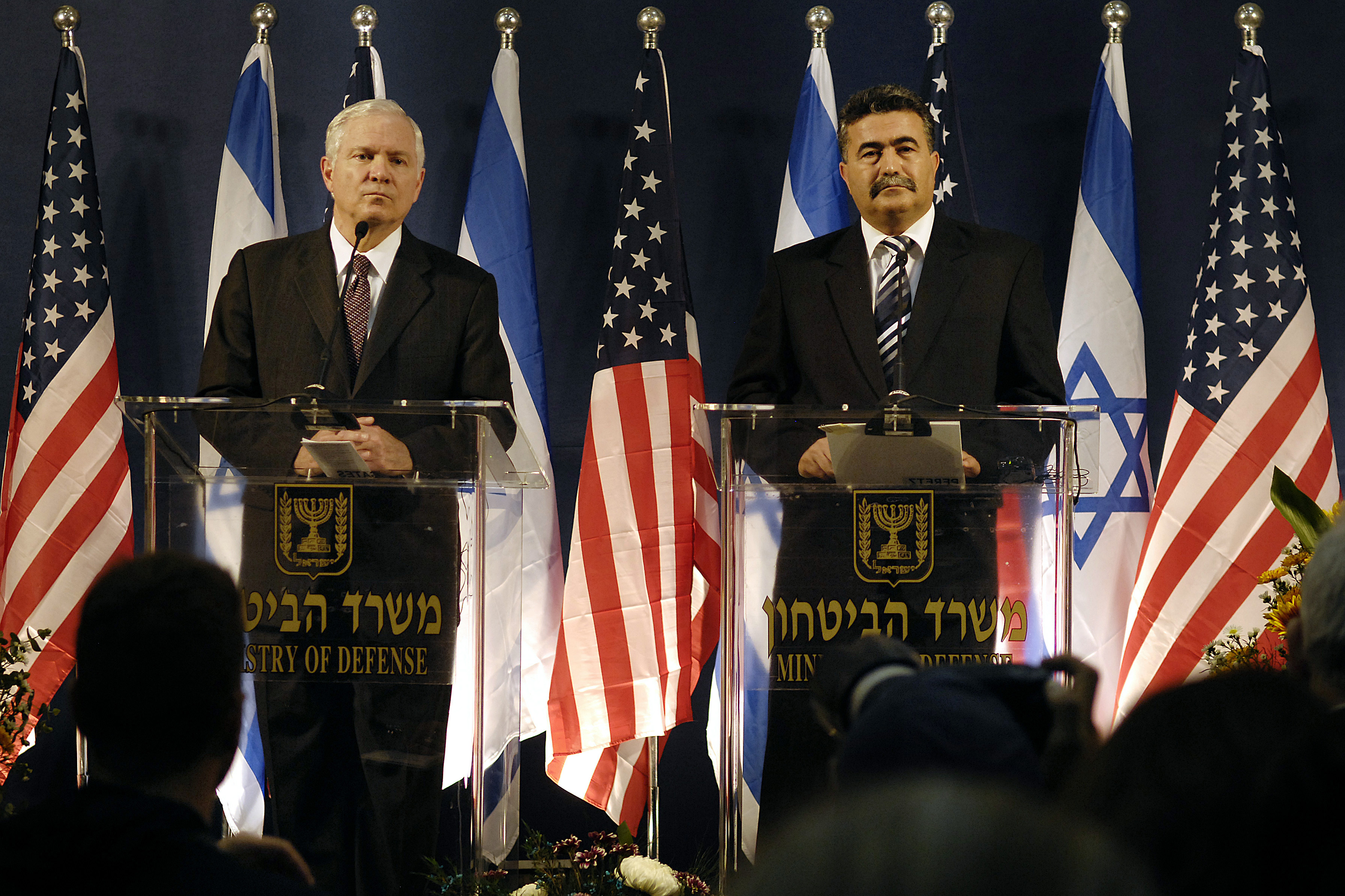 Secretary of Defense Robert M. Gates, left, and Israeli Minister of Defense Amir Peretz conduct a press conference in Tel Aviv, Israel, April 18, 2007.